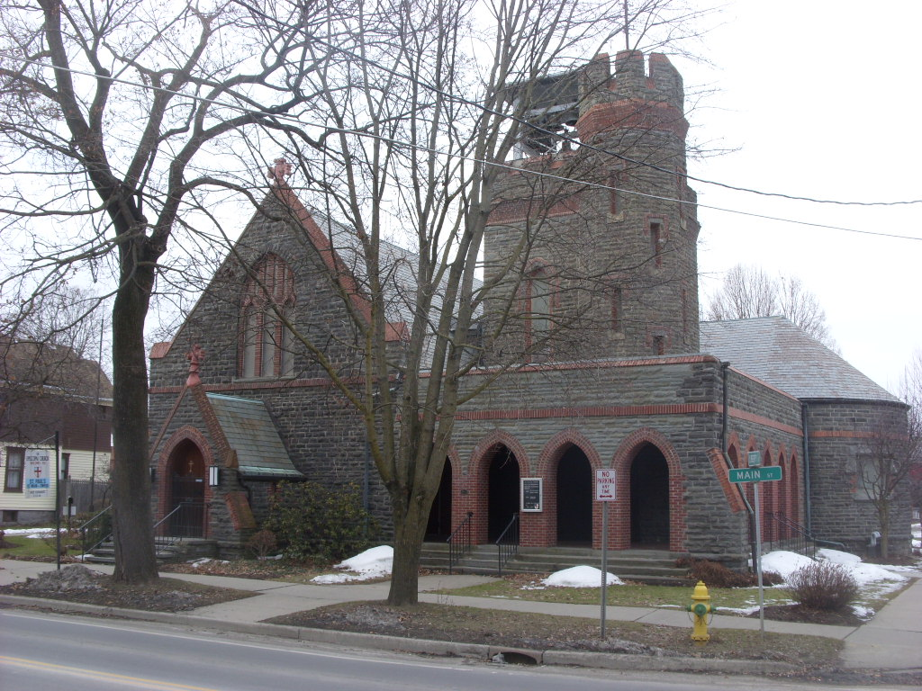 St. Paul's Church (Owego, New York)021609 058